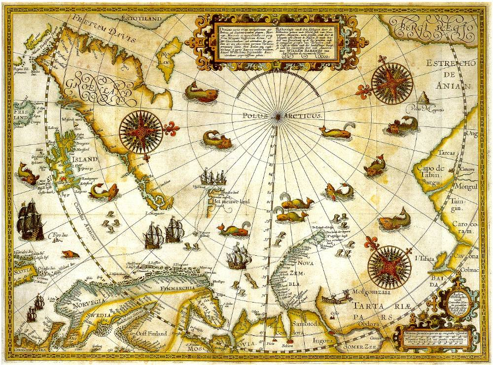 1598 map of the hree Arctic voyages (1594–1596) by Willem Barentsz. Delineatio cartae trium navigantium per Bataves, ad Septentrionalem plagam, Norvegiae, Moscoviae et novae Semblae Autore Wilhelmo Bernardo [1] [2]